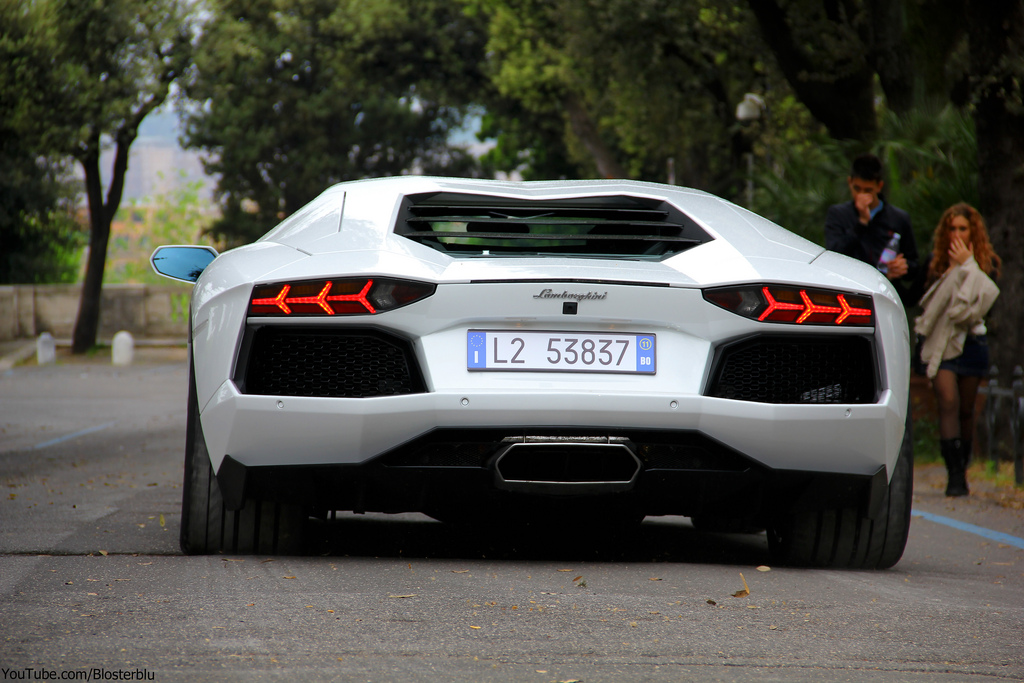 Another shot from the awesome presentation of the brand new Lamborghini Aventador LP700-4 in Rome! YouTube channel with videos: Second YouTube channel: SUBSCRIBE FaceBook